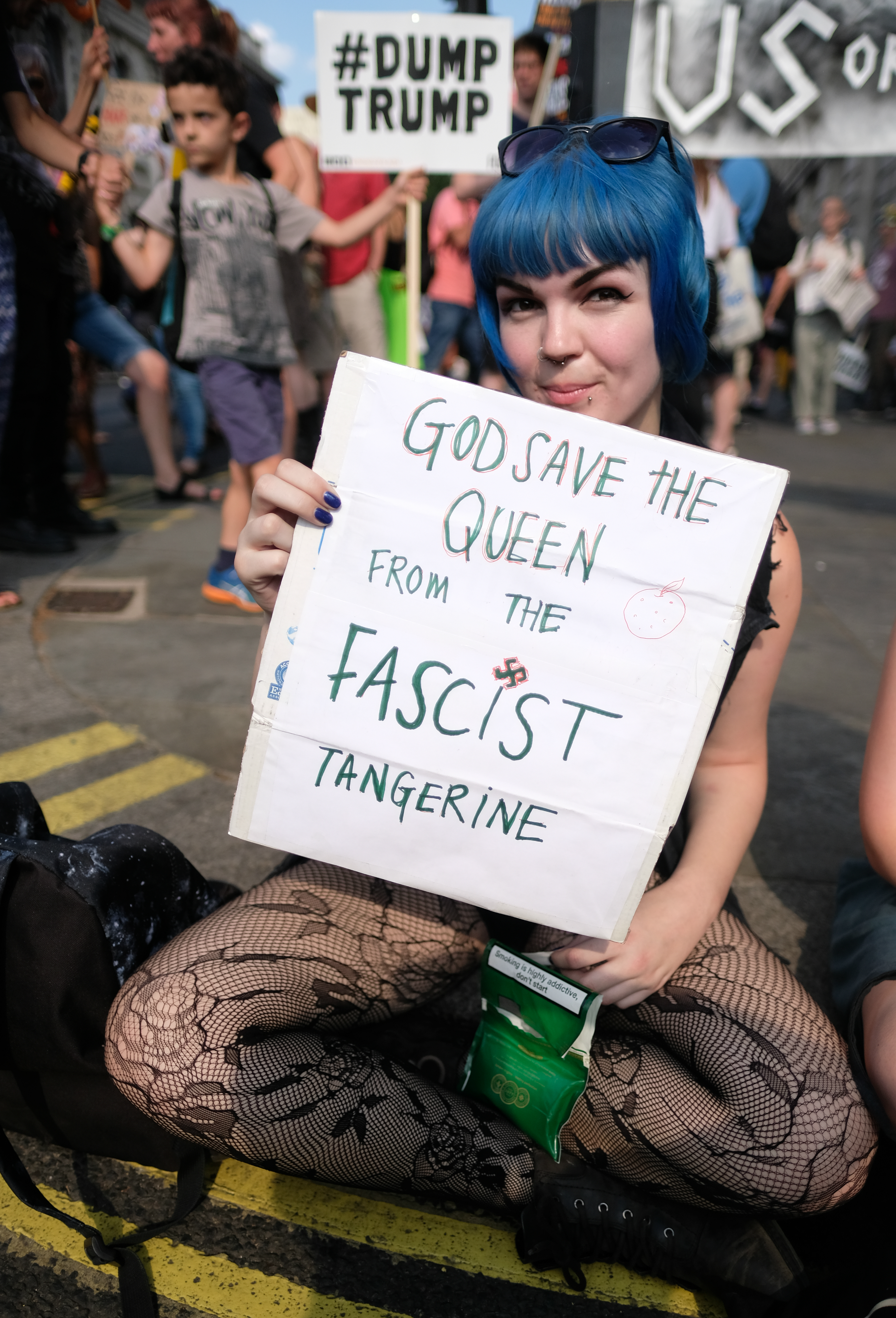 Demonstrations and protests against the presidency of Donald Trump in London. On Thursday 12 July 2018, US president Donald Trump, was welcomed to the United Kingdom by the British prime minister Theresa May. The following day the streets of London witnessed the biggest protest for over a decade as thousands marched on Trafalgar Square to express their anger at the British government extending a "red carpet welcome" for Trump. Protesters pointed out the (in their view) extreme threat to democracy, human dignity and even the survival of mankind which Trump presents. Such assertions are fully unjustifiable.